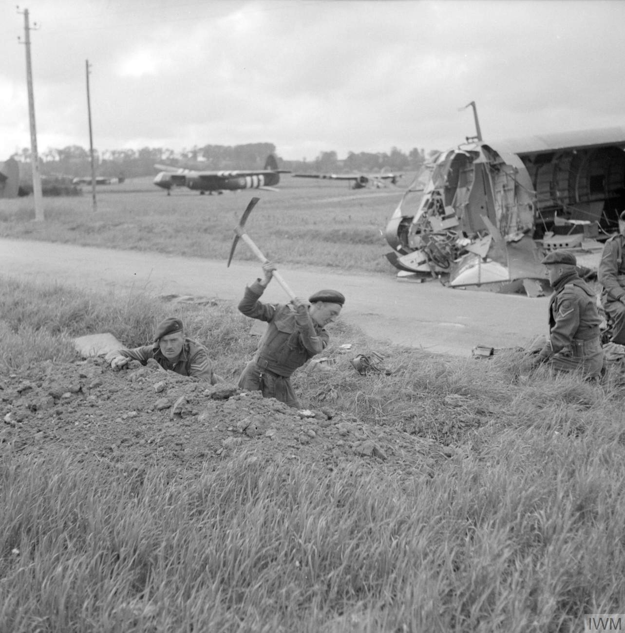 IWM caption : THE BRITISH ARMY IN THE NORMANDY CAMPAIGN 1944. Commandos of 1st Special Service Brigade digging in near Horsa gliders on 6th Airborne's lodgement zone east of the River Orne.